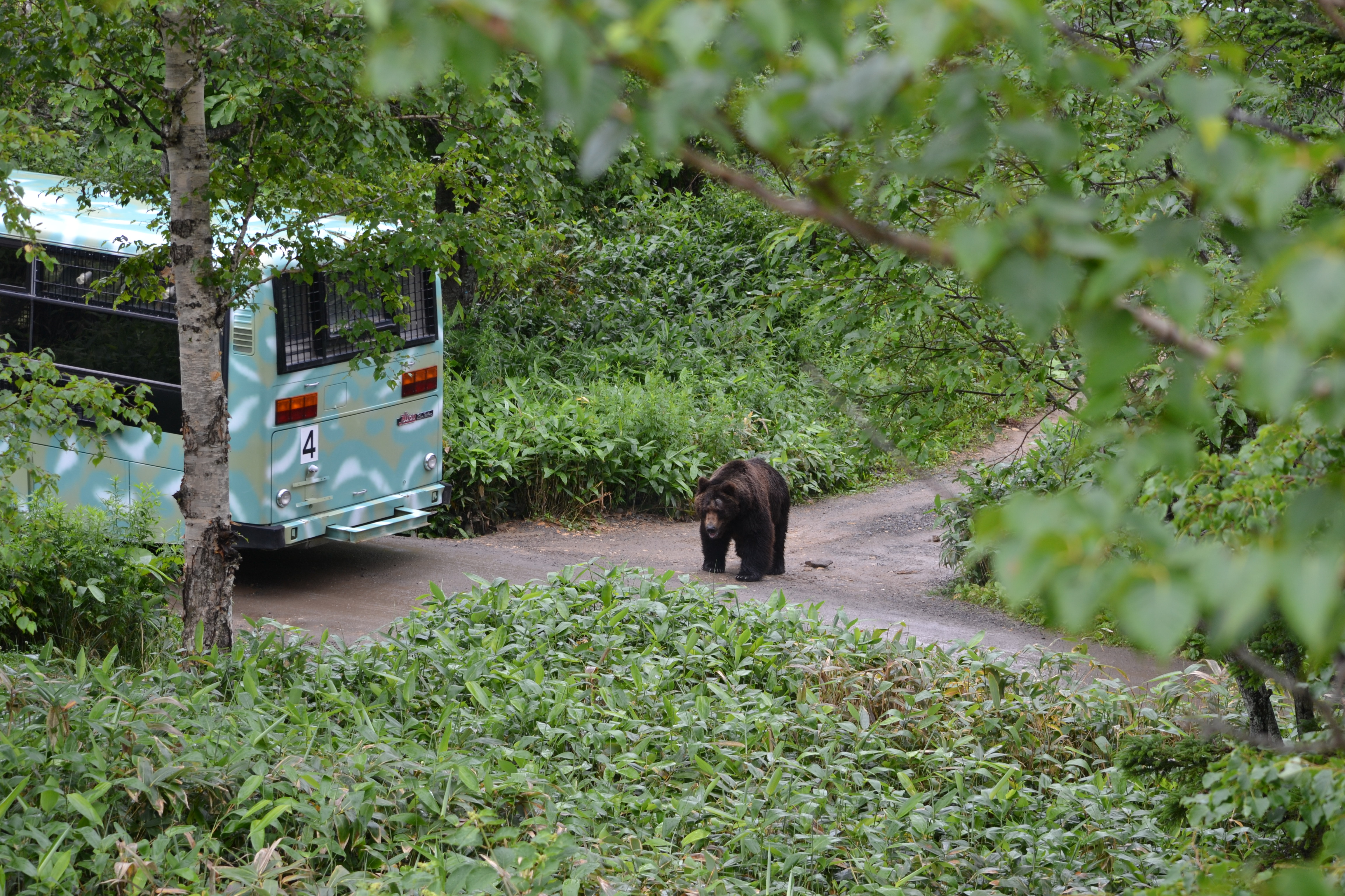 Sahoro Resort Bear Mountain